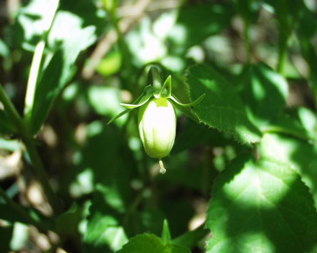 (en) Viola jordanii, a photography originating of the internet site The accord of the autor, H. Brisse, is here. (fr) Viola jordanii, une photographie issue du site internet L'accord de l'auteur, H. Brisse, se situe ici.